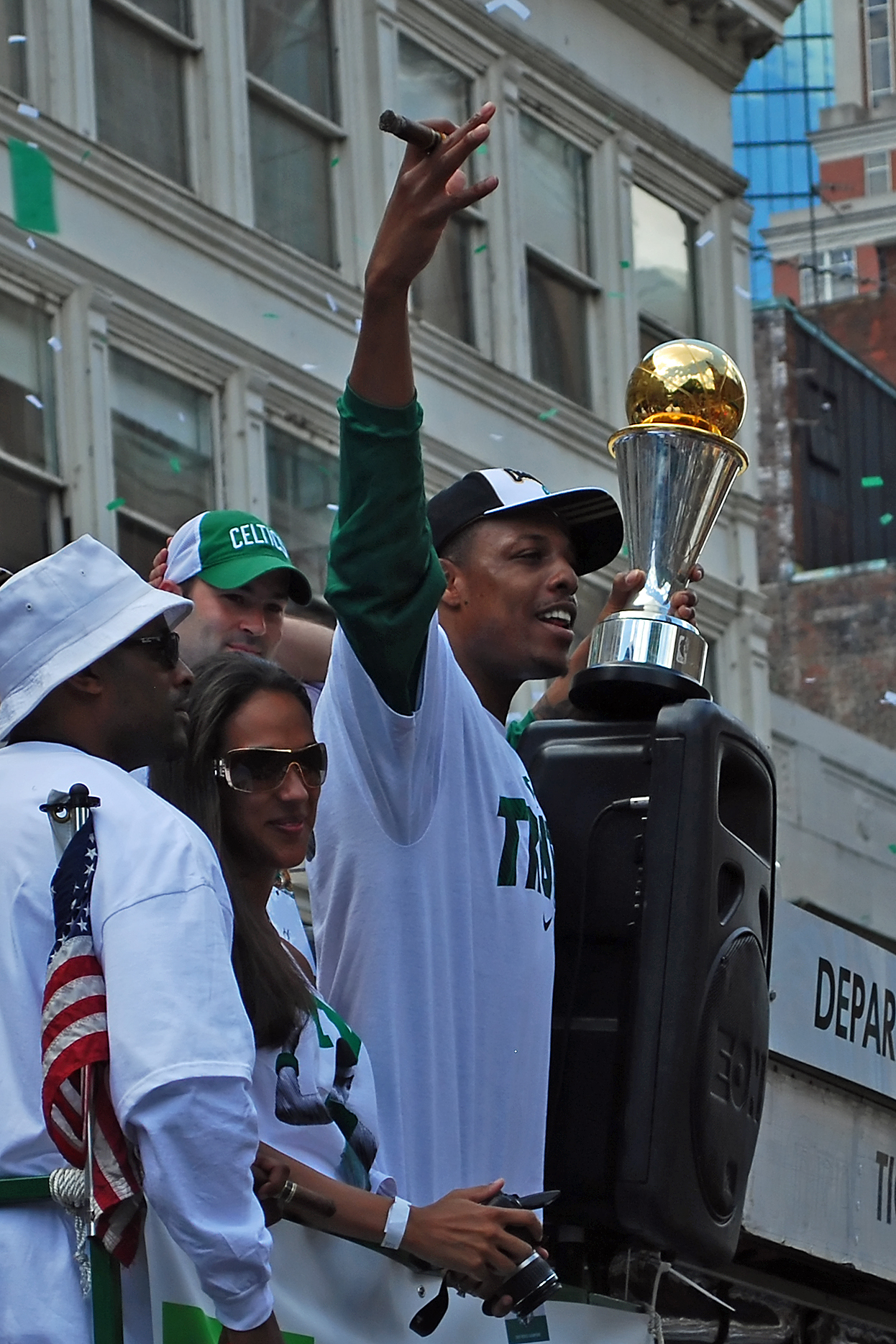 Paul Pierce holds up his NBA Championship MVP Trophy. Well deserved!